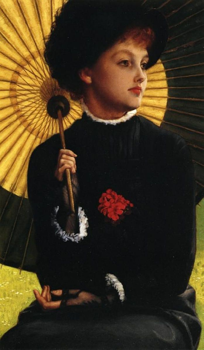 La Dame à l'ombrelle (Kathleen Newton)